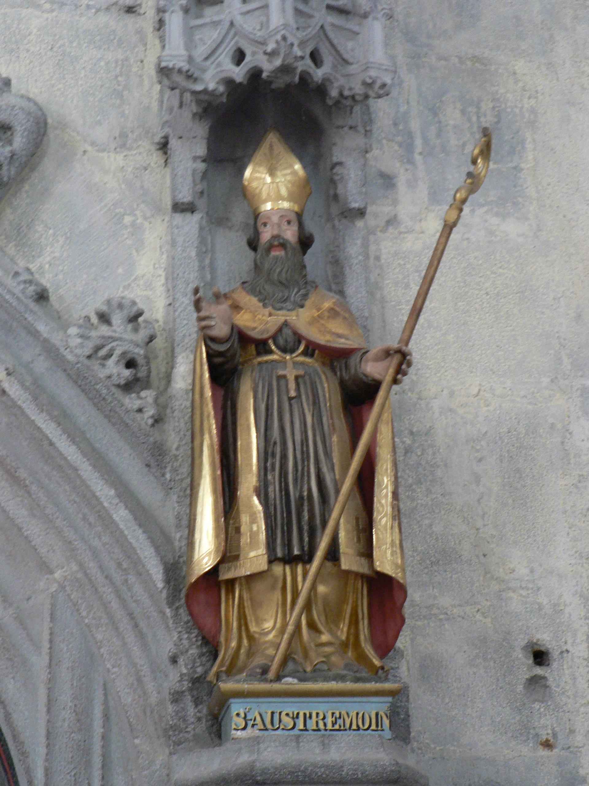 Statue en bois peint de saint Austremoine dans l'église de Mozac (Auvergne - France). Date de l'œuvre : XVIIe - XVIIIe siècle.